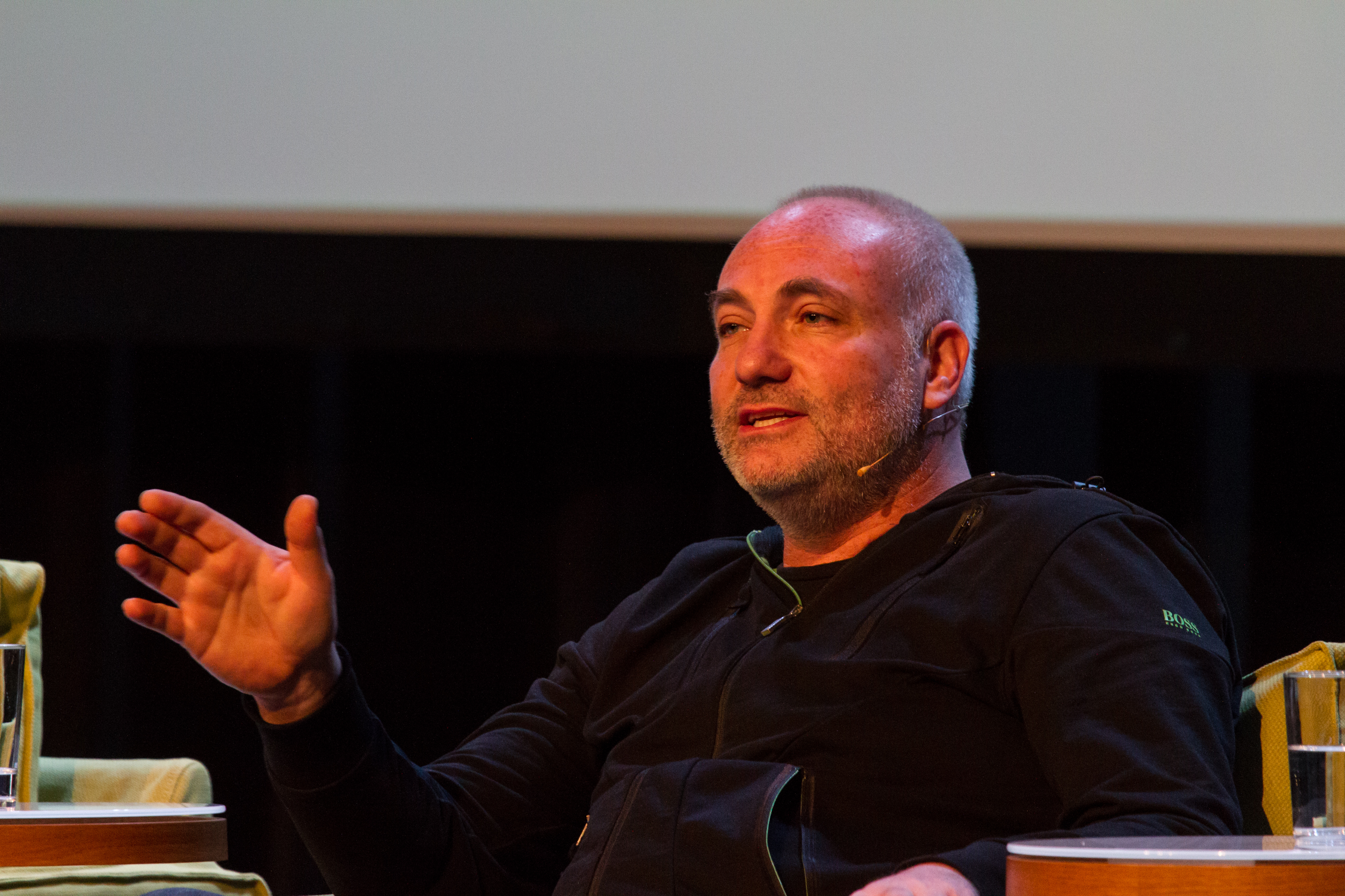 Kim Bodnia (born 12 April 1965) is a Danish actor. Photo: Kjetil Greger Pedersen.